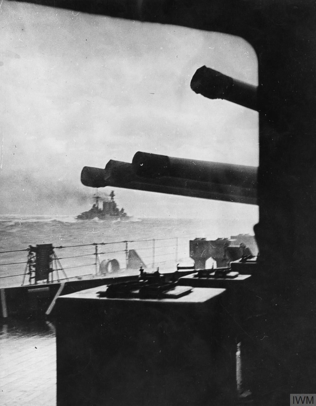 HMS HOOD going into action against the German battleship BISMARCK and battlecruiser Prinz Eugen, 24 May 1941. This image taken from HMS PRINCE OF WALES was the last photo ever taken of HMS HOOD. Photograph published in: Hood,Roger Chesneau, Cassell, 2002, ISBN 0-304-35980-7. Photographer not identified, so UK Copyright contended to have lapsed 50 years after publication.